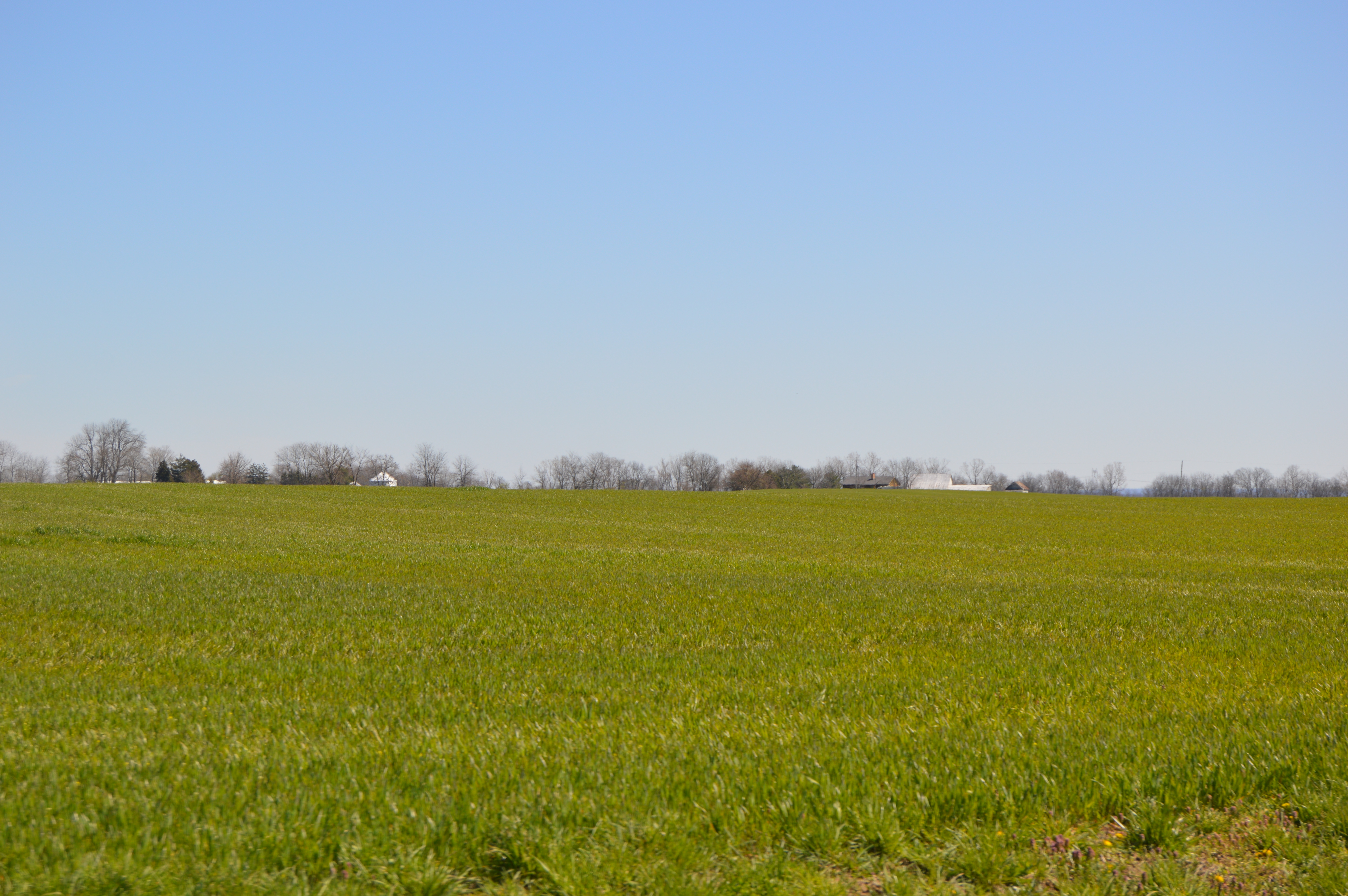 Wheat fields on Clarksburg Pike northwest of Clarksburg in far eastern Perry Township, Pickaway County, Ohio, United States.